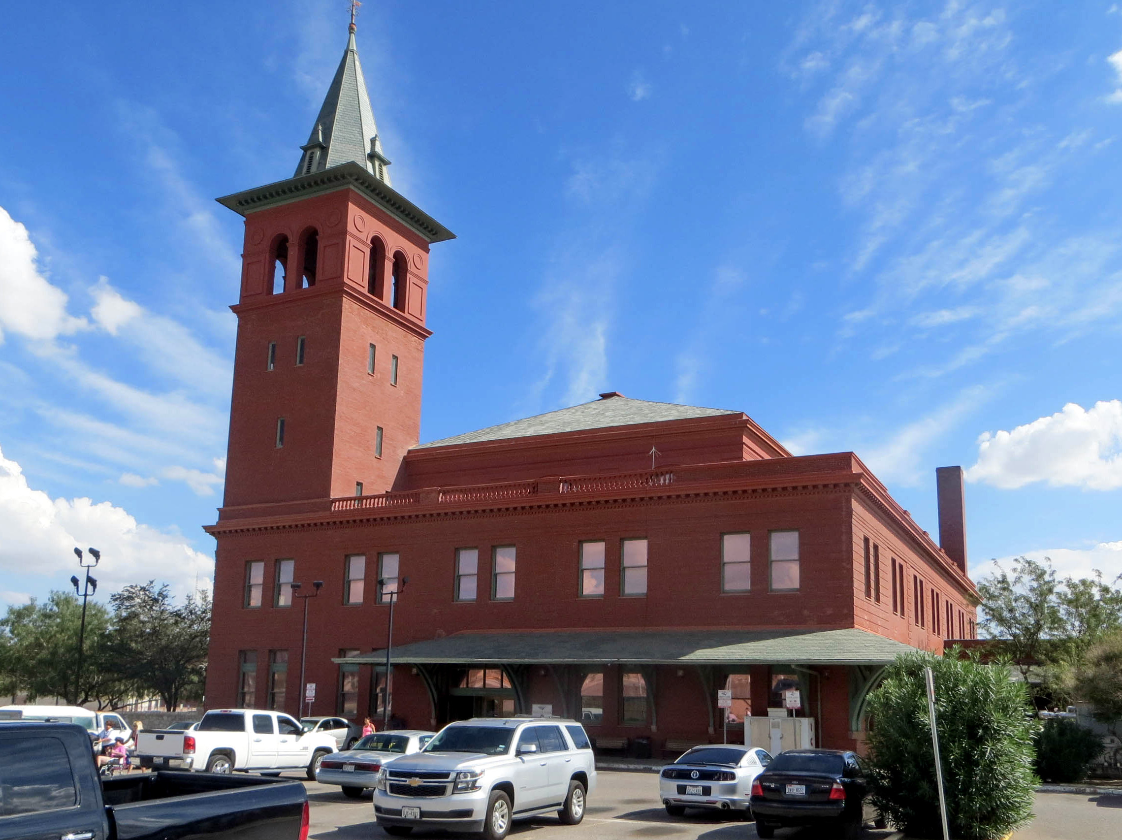 El Paso Union Depot from the parking lot in September 2014